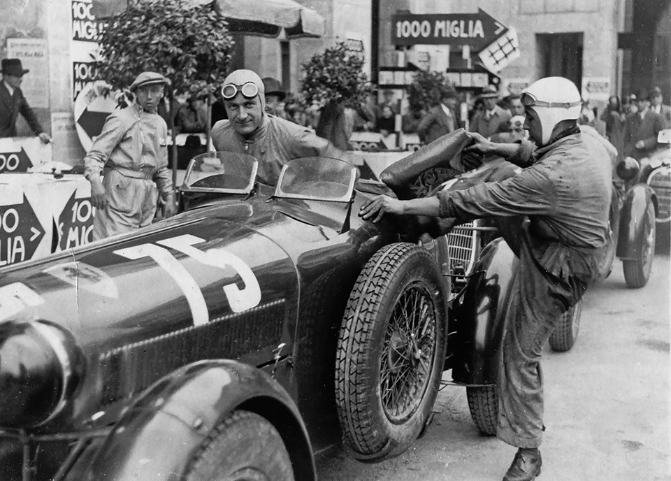 Antonio Brivio + Carlo Ongaro in the Alfa Romeo 8C 2900A s/n 412004, in the Mille Miglia on May 3 1936 in Italia which they won.